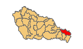 Location of municipality inside Međimurje County